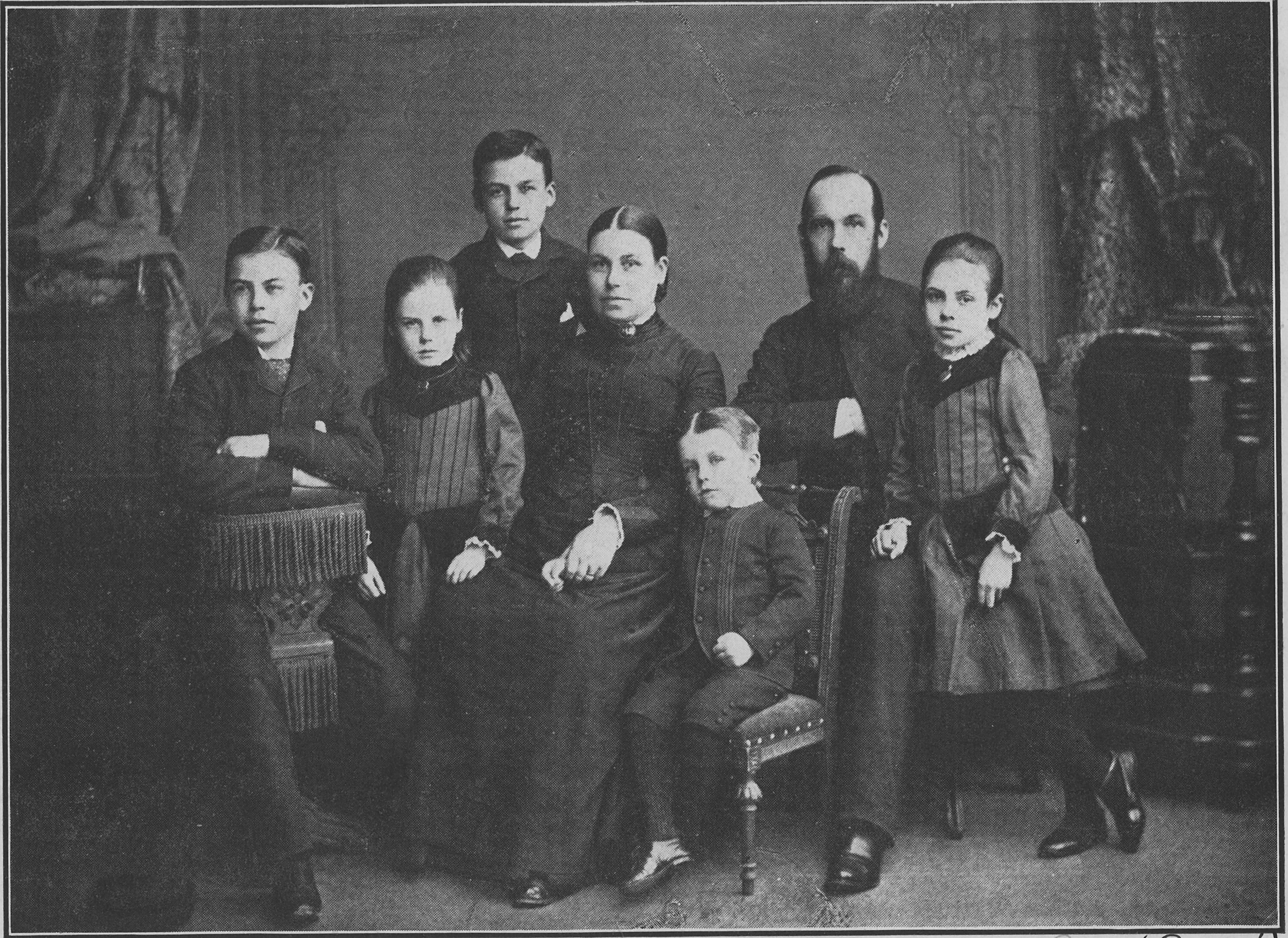 Scope and content: This item is a photograph Rev. W. H. Collison and his family.